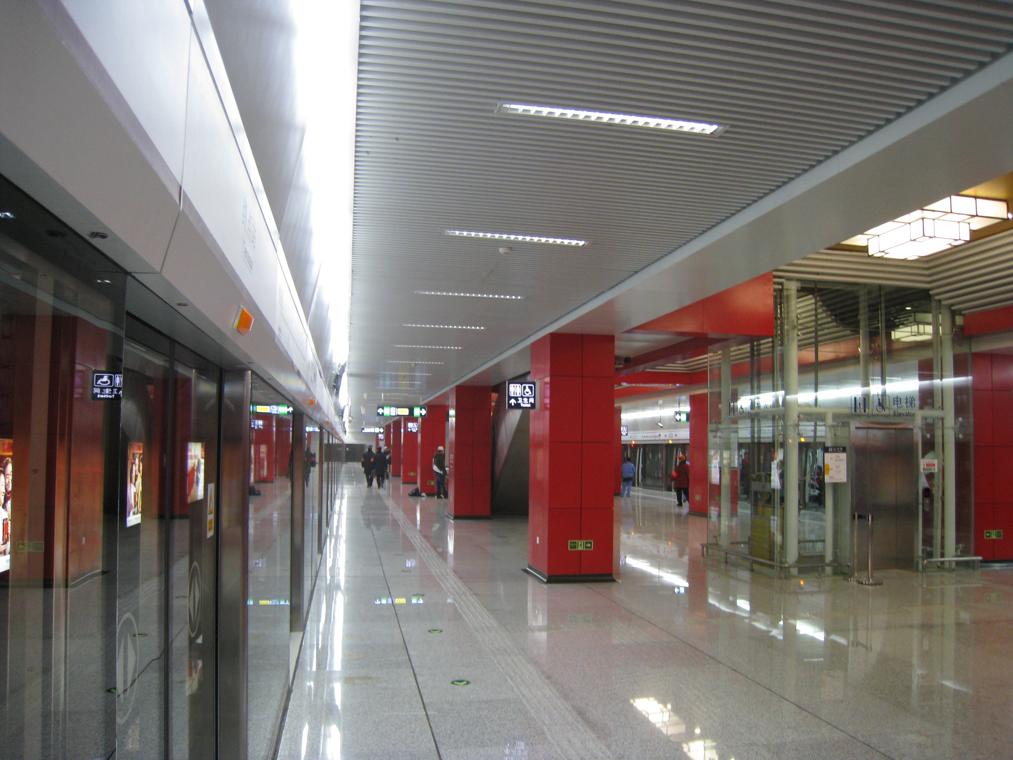 The Platform of Wangjing West Station, Line 15, Beijing Subway. 中文（中国大陆）: 北京地铁15号线望京西站站台